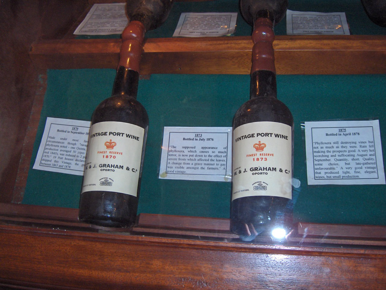 Vintage port wines (1870 and 1873); Porto, Portugal